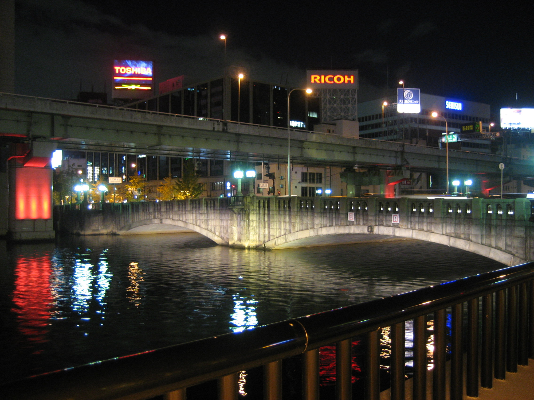 Oebashi Bridge